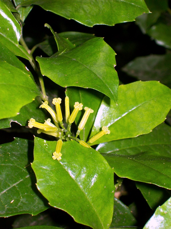 Polyosma cunninghamii flowering at Minnamurra rainforest walking track, Budderoo National Park, Australia